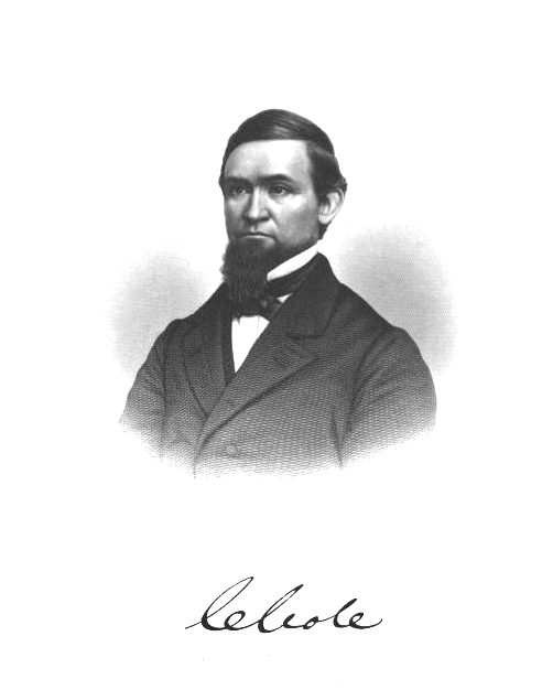 Cornelius Cole (1822-1924), American soldier, lawyer and politician; An engraving by George E Perine. Published in Barnes, William Horatio. History of Congress: The Fortieth Congress of the United States. 1867-1869. New York: W. H. Barnes & Co., 1871, after p. 98.